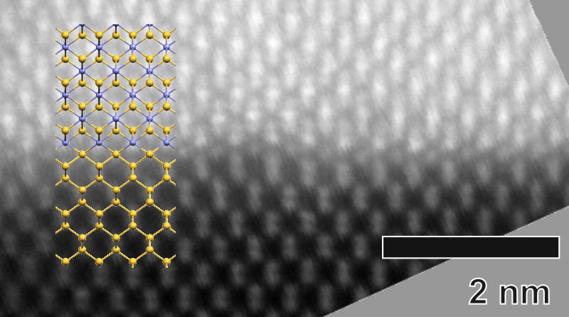 HAADF image produced by a Cs-corrected STEM at the SuperSTEM Laboratory, Daresbury, UK (funded by the EPSRC), of the interface between Nickel Disilicide (top) and Silicon (bottom). Inset of ball-and-stick model for clarity, ball-and-stick model created by use of the computer program MERCURY.